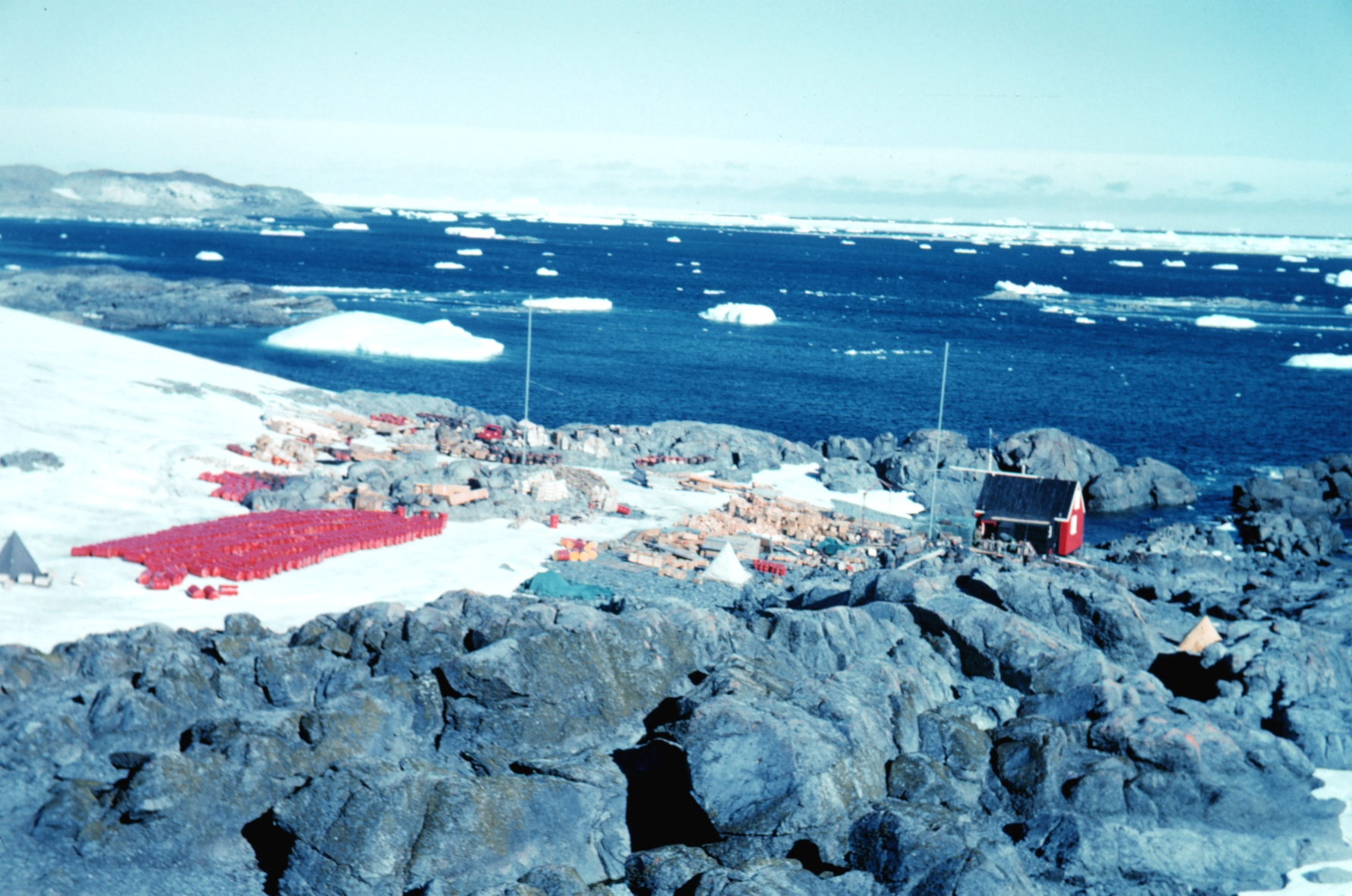 British Base T on Adelaide Island - Adelaide Island, Antacrtica